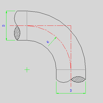 Bend piping